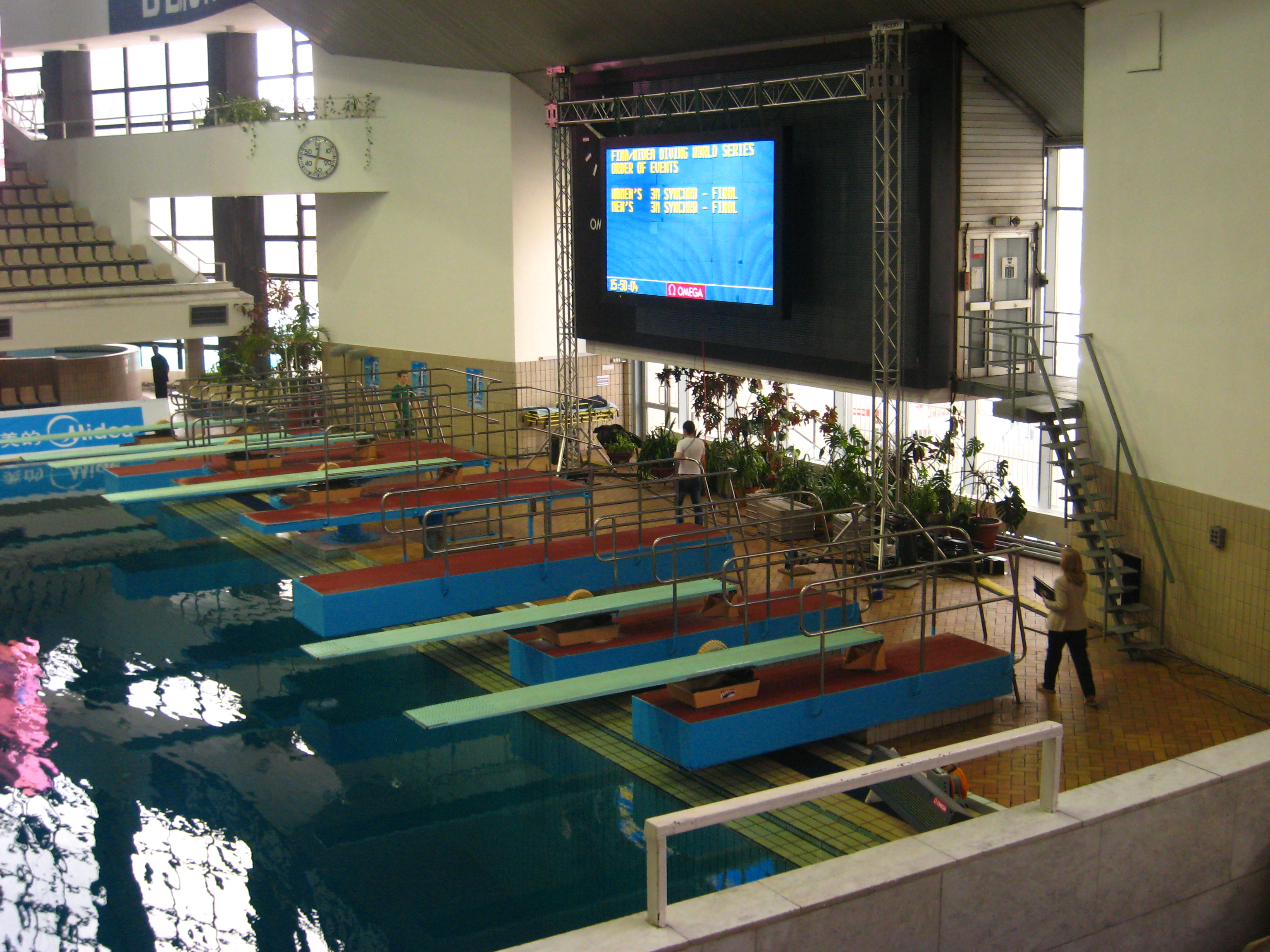 First day of the FINA/Midea Diving World Series 2013 - Moscow (RUS)